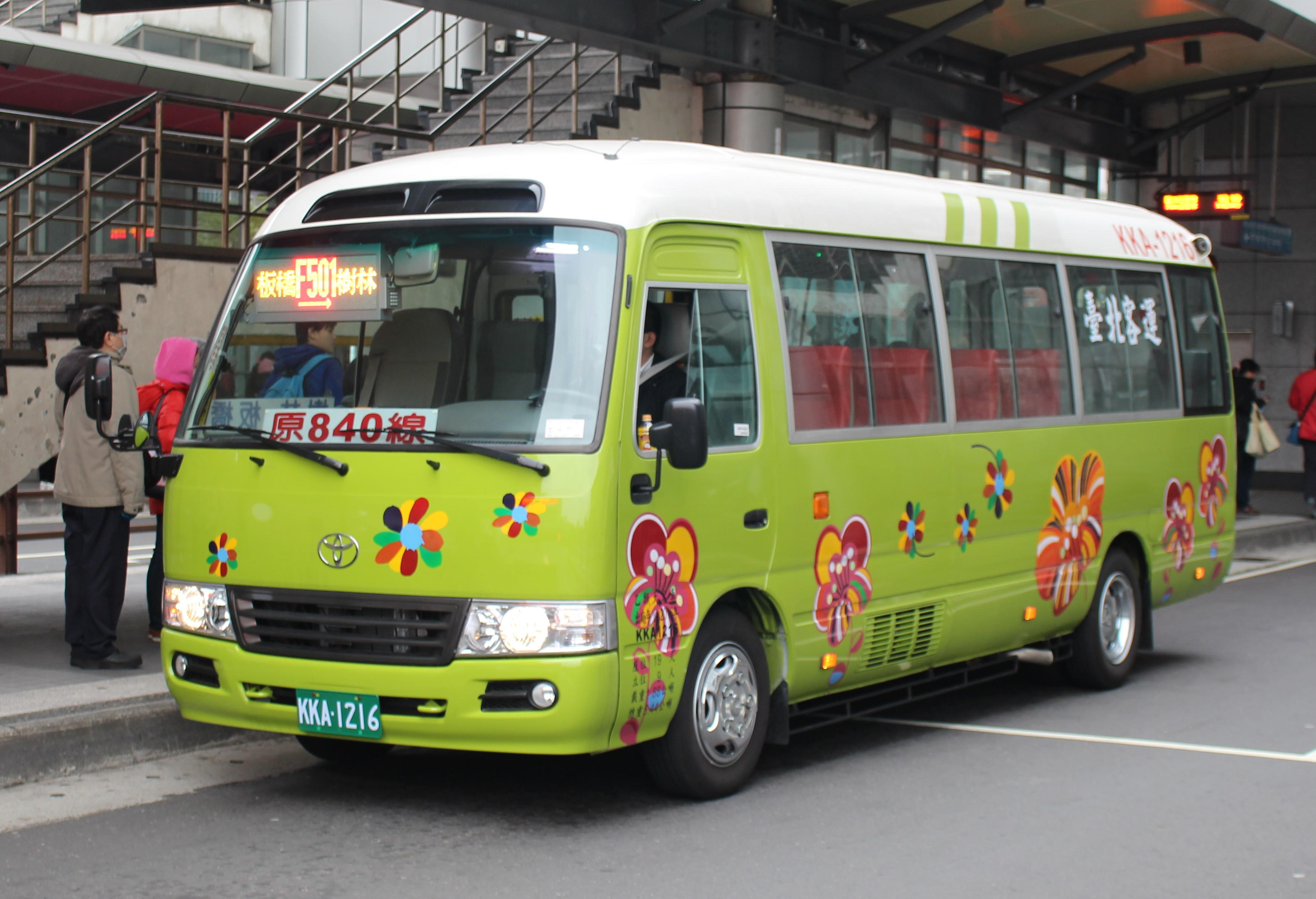 2016 TOYOTA COASTER XZB50L-ZEMSYR